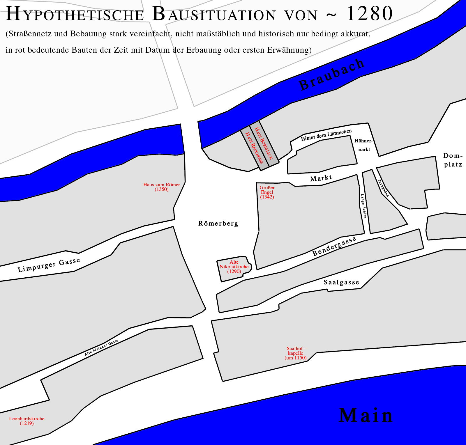 Frankfurt on the Main: Hypothetical surroundings of the Steinernes Haus (Stone House) in the old town around the year 1280